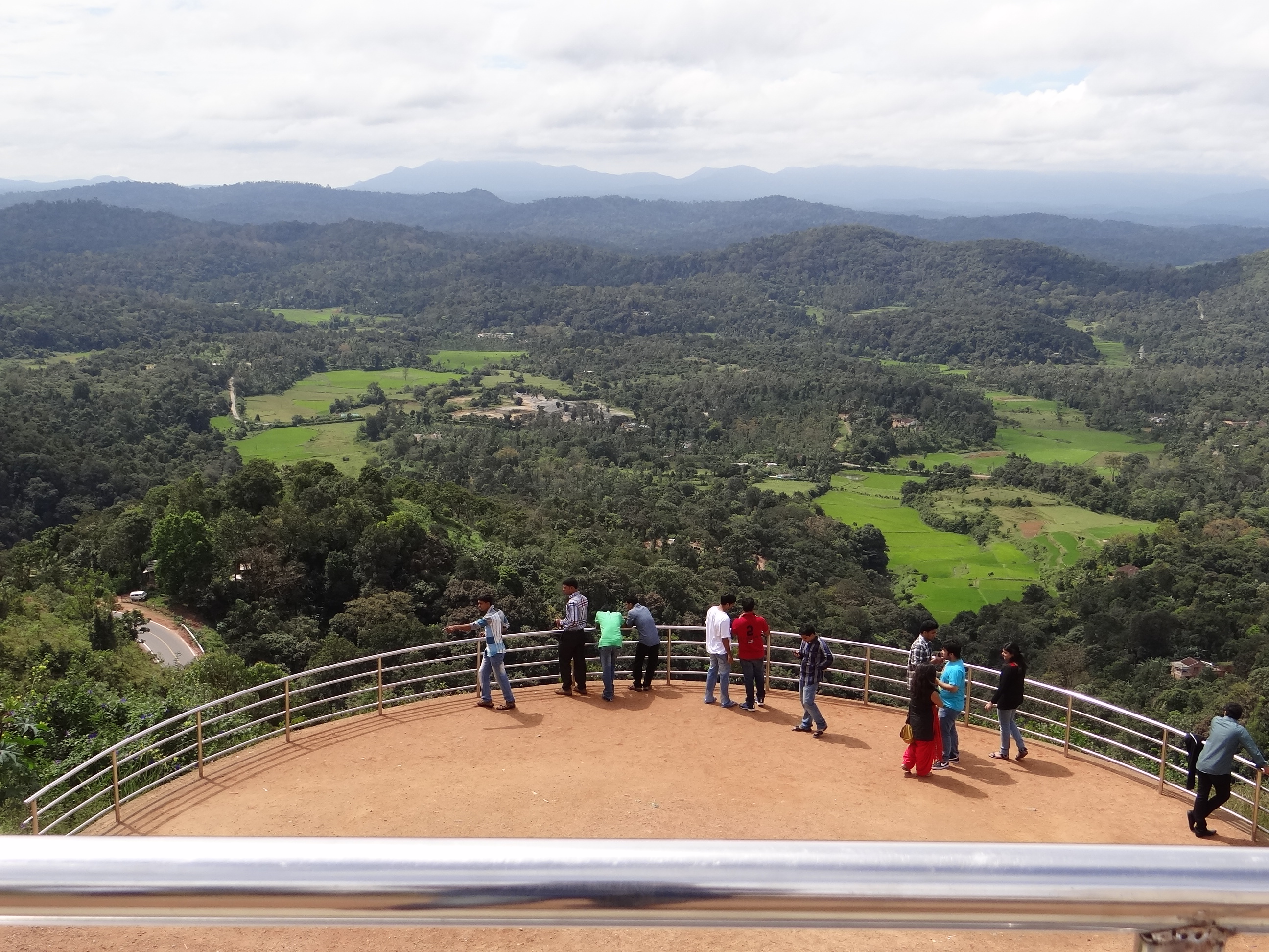 It is perfect setting to relax and admire the breathtaking view of the surrounding areas. Lush greenery with calm environment and golden streams of sunlight makes for a picture perfect setting.